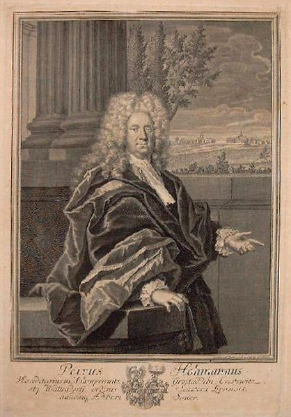 Portrait of Peter Hohmann (1663-1732)